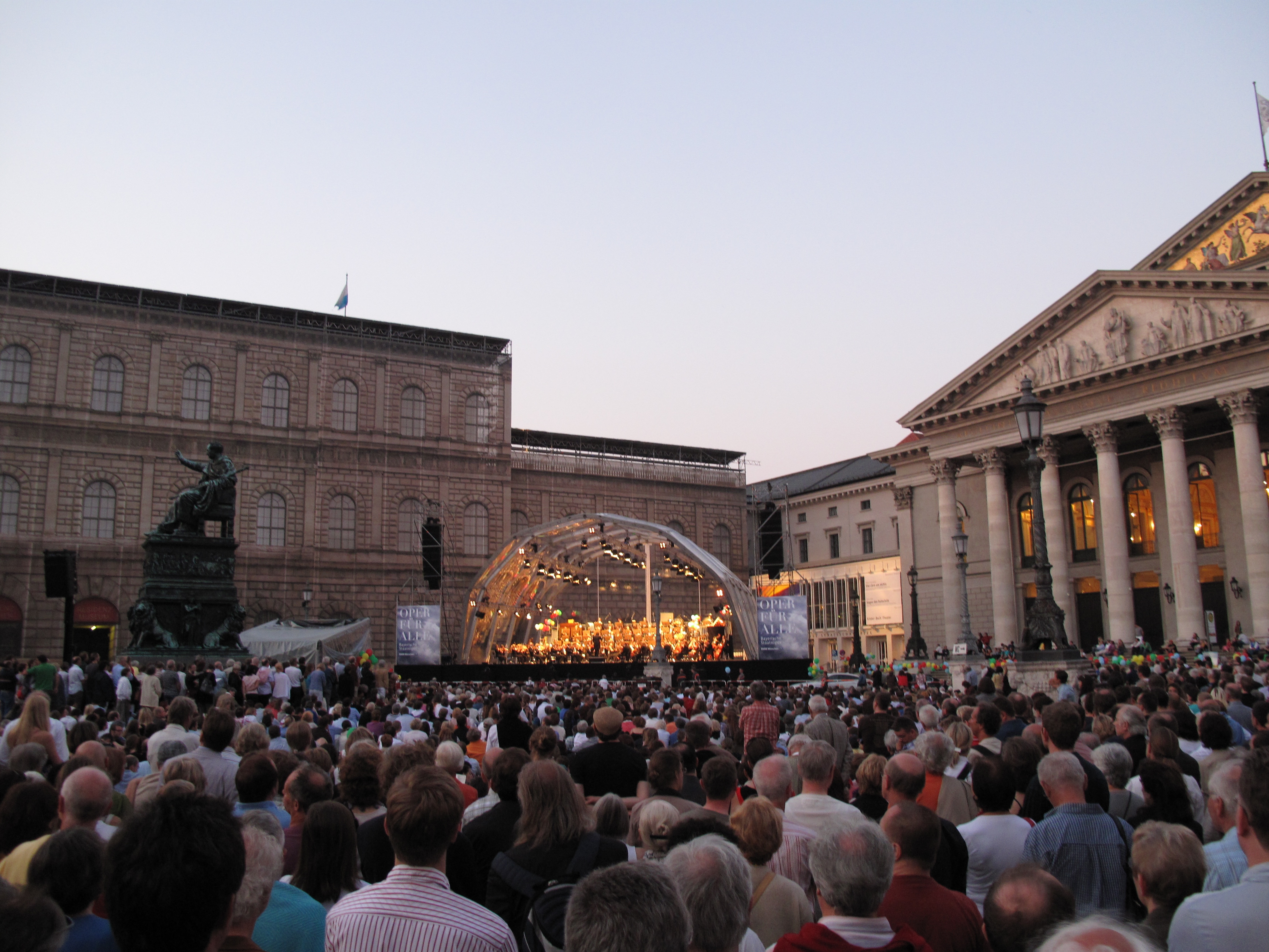 Gratis concert ("Oper für alle") by the philharmonic orchestra of the bavarian states opera in front of the Nationaltheater at the Max-Joseph-Platz in Munich during the opera festival.